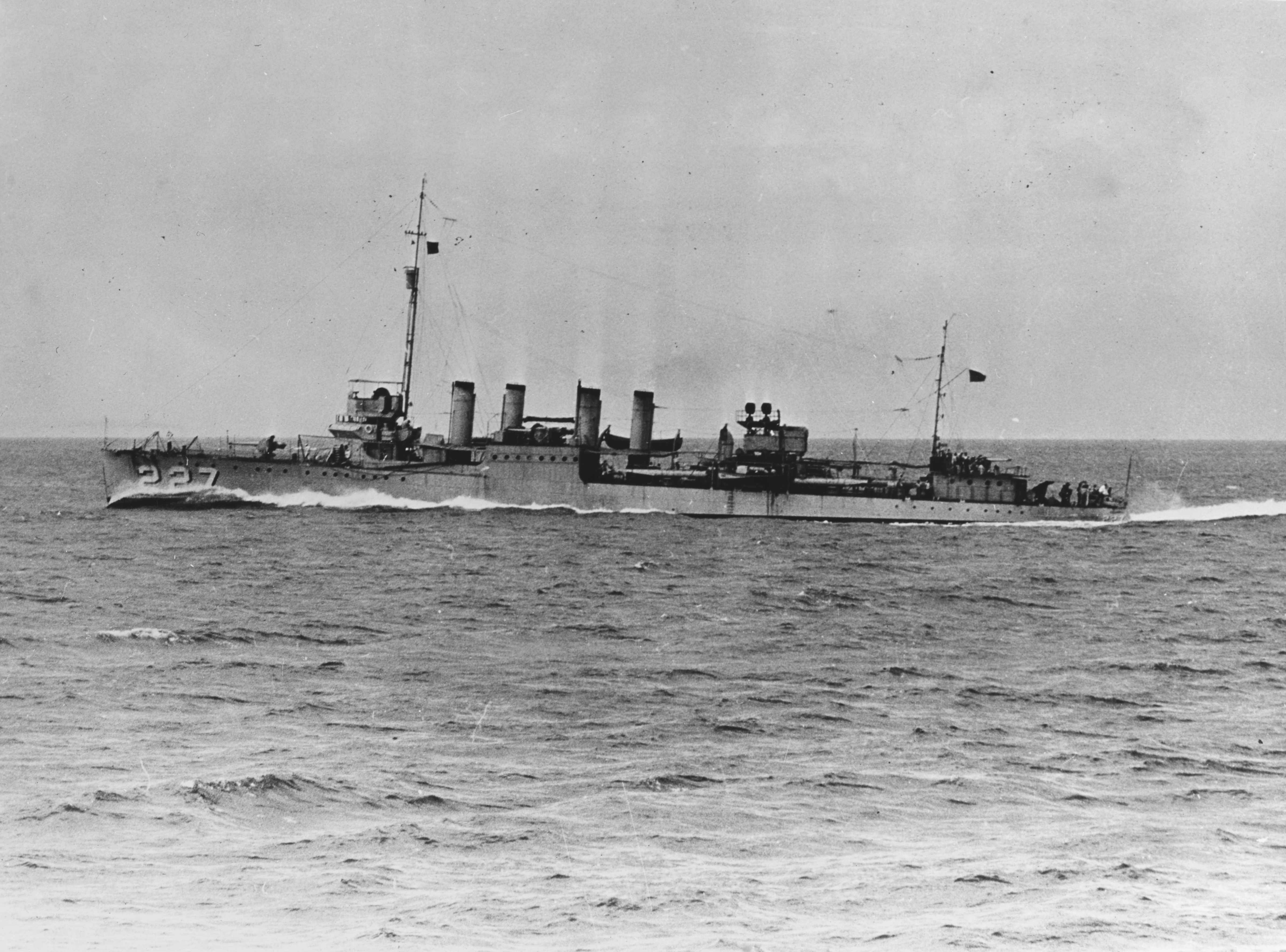 The U.S. Navy destroyer USS Pillsbury (DD-227) steaming at high speed, circa 1930, while serving with the U.S. Asiatic Fleet.